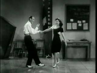 Movie screenshot of Paulette Goddard and Fred Astaire in the song and dance routine "I Ain't Hep to that Step but I'll Dig It" from Second Chorus (1940).